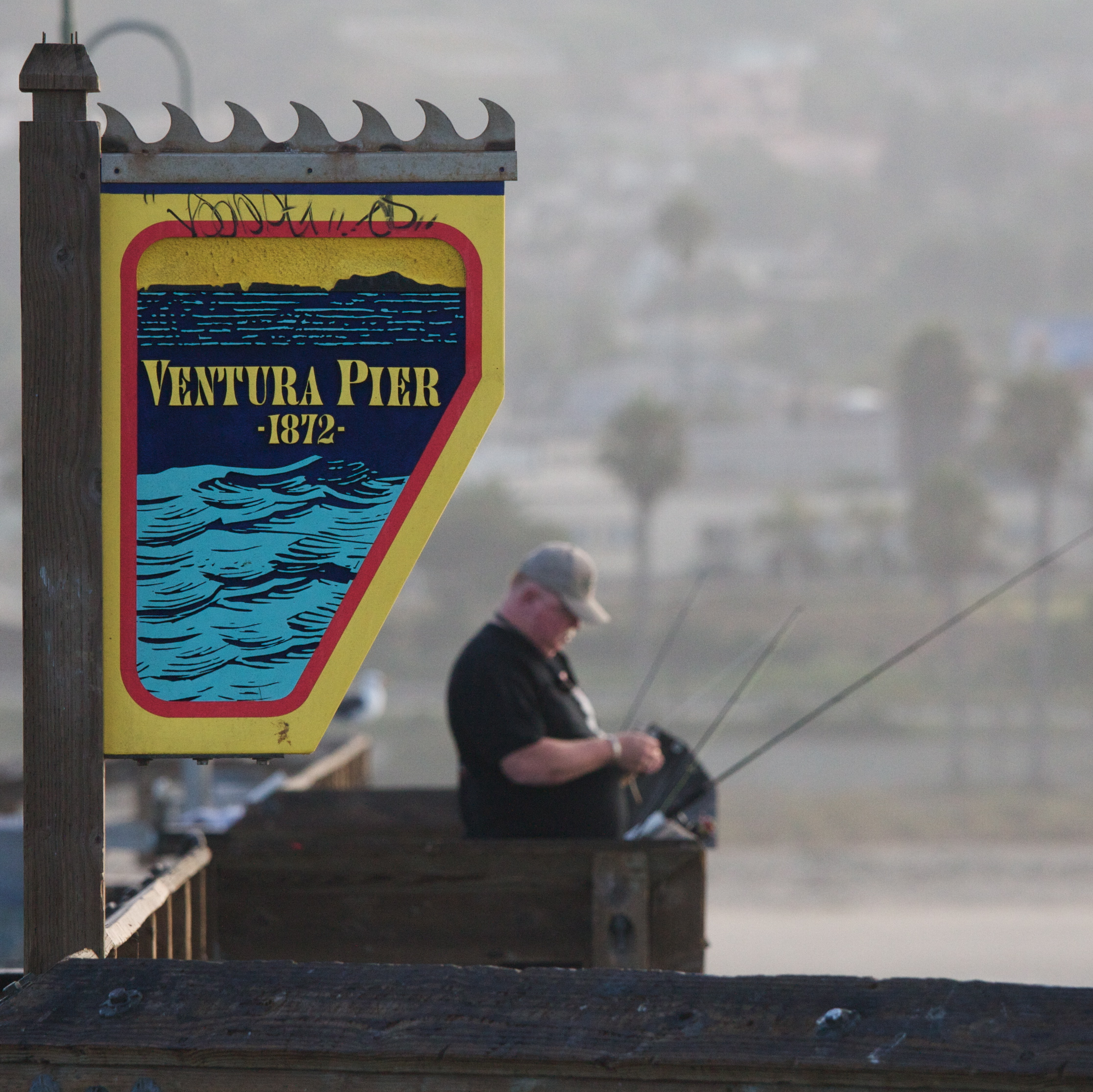 A fisherman tries his luck on the Ventura Pier just after dawn — in Ventura, California. He was the sole person fishing at the time I visited.